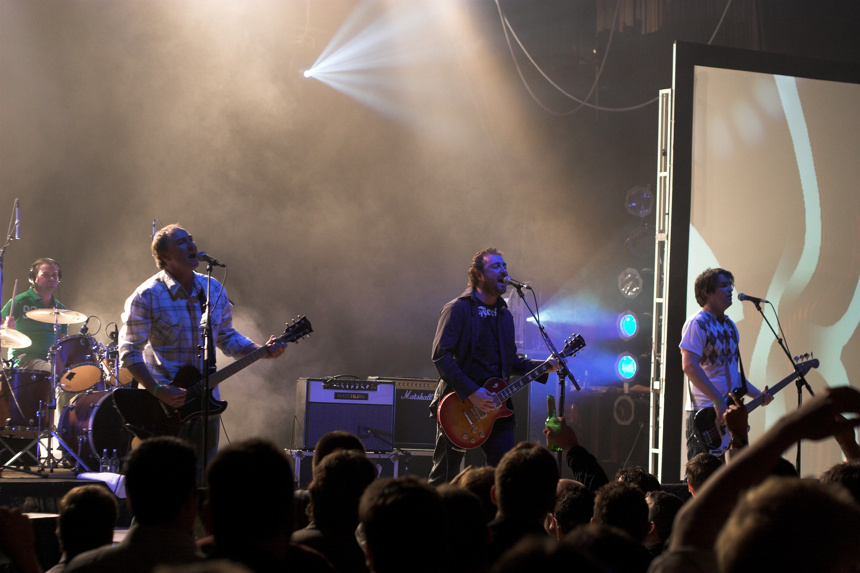 The Feelers at TechFest